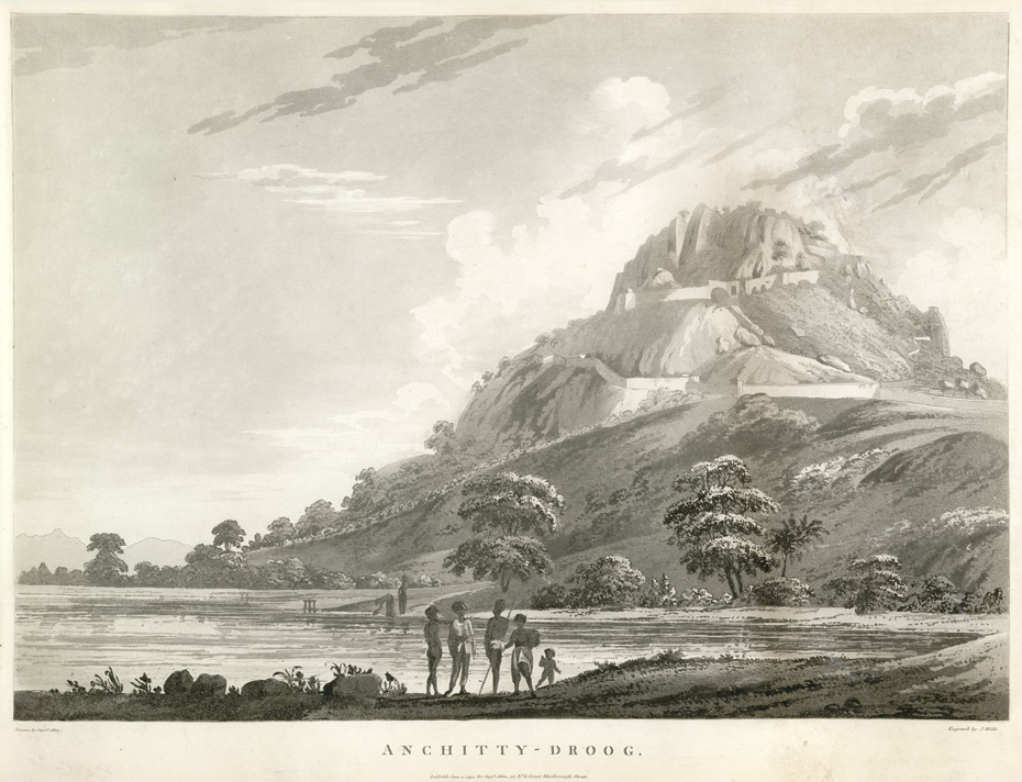 Artist: Allan, Sir Alexander (1764-1820) Medium: Aquatint Date: 1794 Description: This uncoloured aquatint is taken from plate 4 of Captain Alexander Allan's 'Views in the Mysore Country'. Allan's sketches are a record of the third Anglo-Mysore war, one of the most crucial battles fought by the British in their campaign to become the chief power in India. Led by the determined Lord Cornwallis, the Governor General in India, the British faced perhaps their most indomitable Indian foe, Tipu Sultan, the ruler of Mysore, and pushed for control over his prosperous dominions. In the first and second Anglo-Mysore wars Tipu and his father Haider Ali had fended off the British, but neither side could claim absolute success. Haider died in the second Anglo-Mysore war. In the third war (1790-92), helped by strategic alliances with other Indian rulers, the British defeated Tipu who had to sue for peace in the Treaty of Srirangapatna. This hill fort at Anchetti in Tamil Nadu was taken by Lord Cornwallis in July 1791.